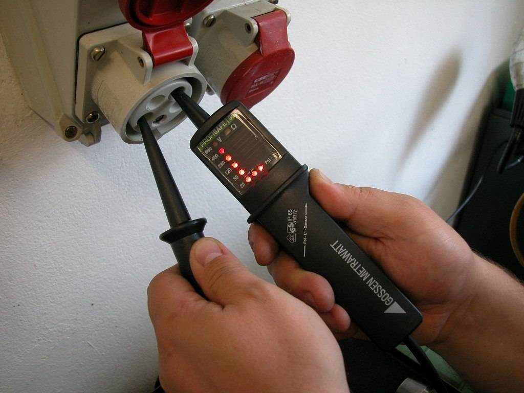 Voltagetester